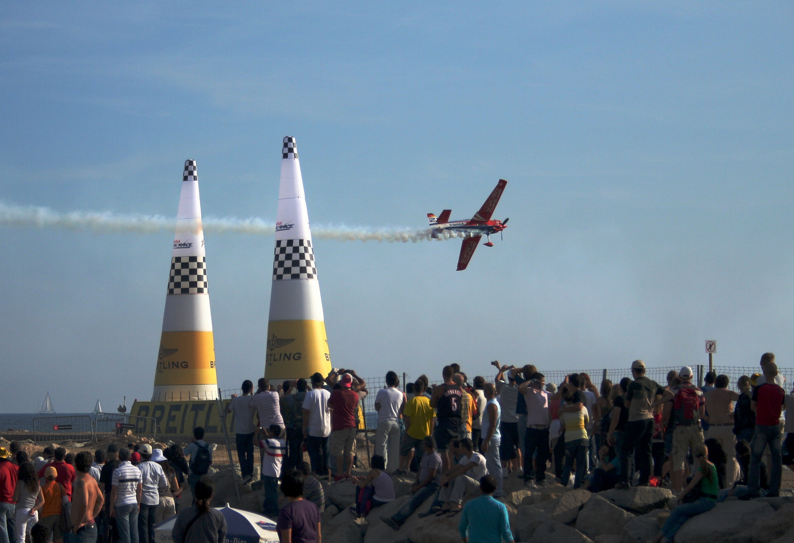 Matthias Dolderer in the final of the Red Bull Air Race Barcelona 2009